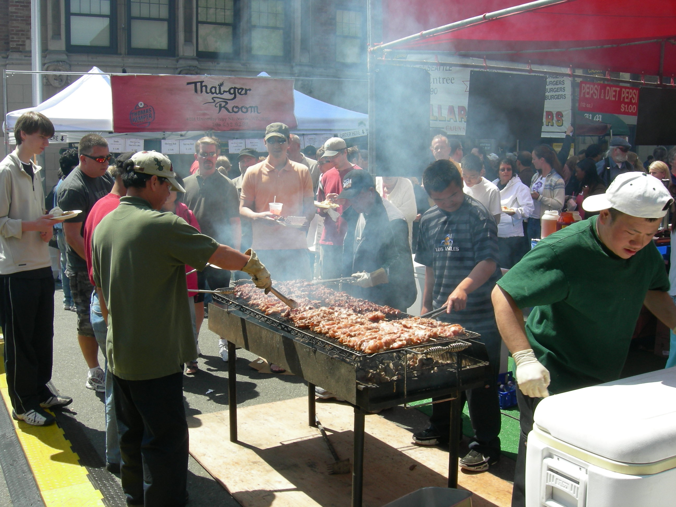 Grilling meat at University District Street Fair, University District, Seattle, Washington.